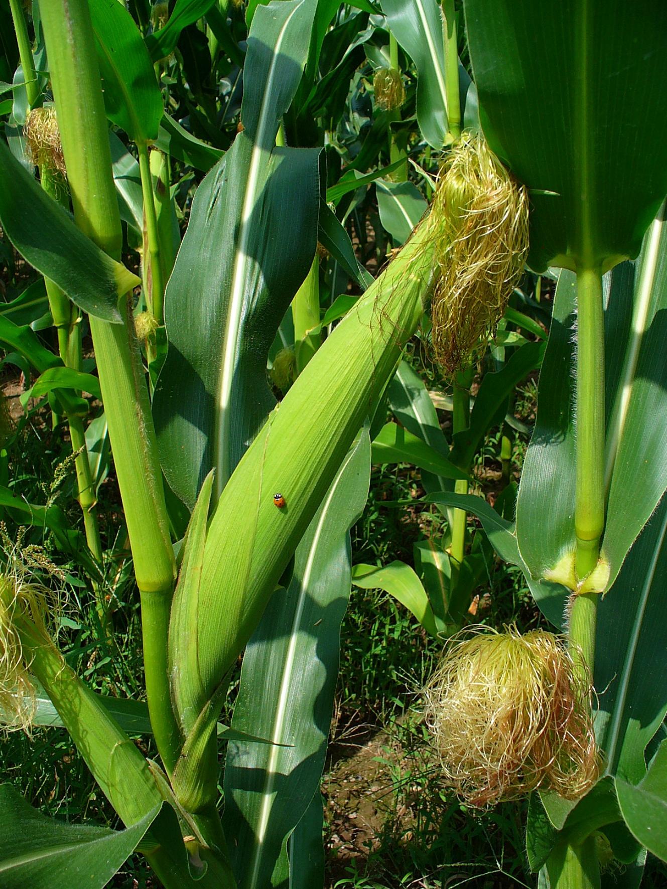 Zea mays, Poaceae, Maize, female inflorescence. Stutensee, Germany.